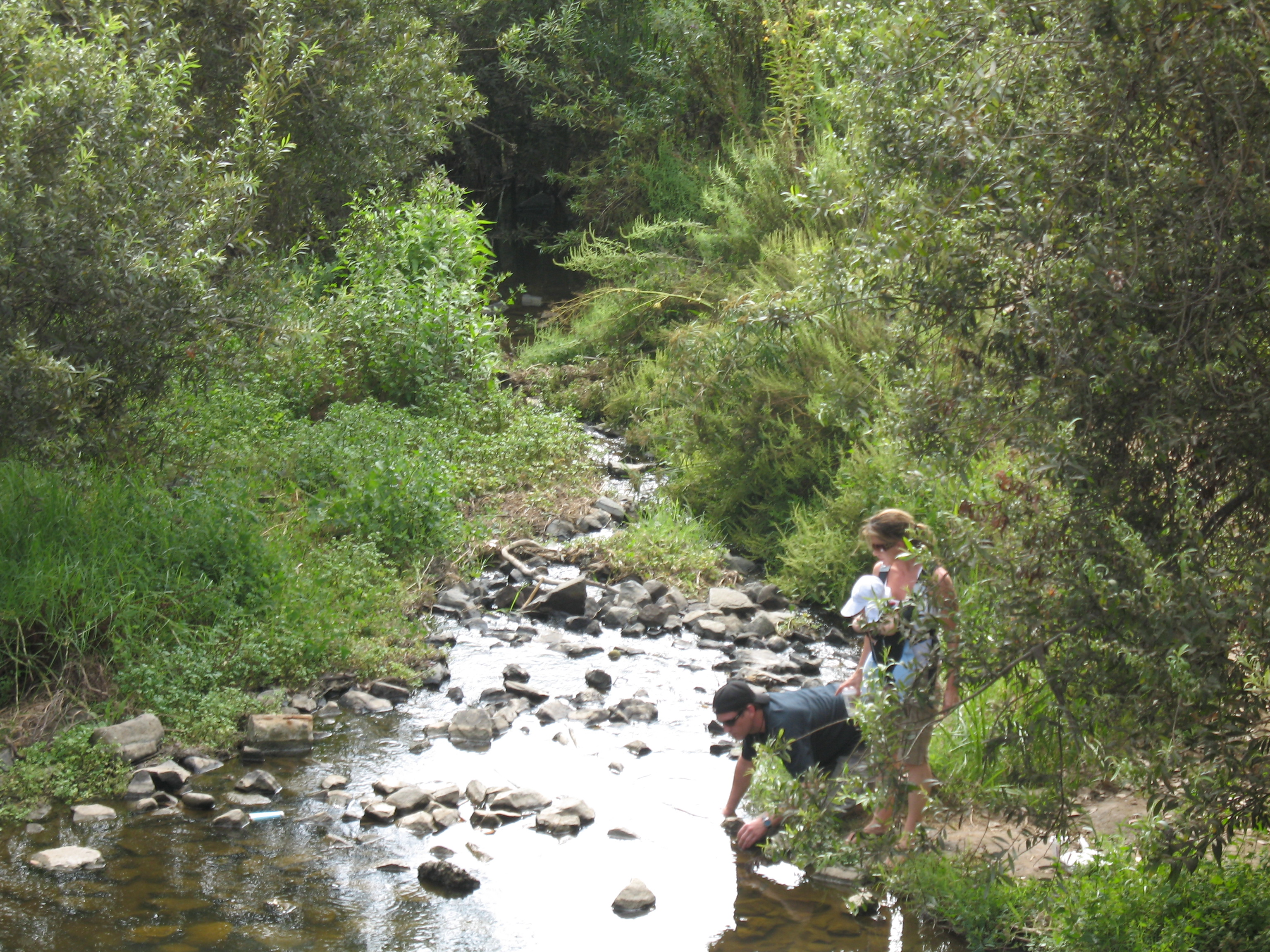 A view from Highway 101 of Cottonwood Creek within Cottonwood Creek Park, near Moonlight Beach in Encinitas, California, 2007